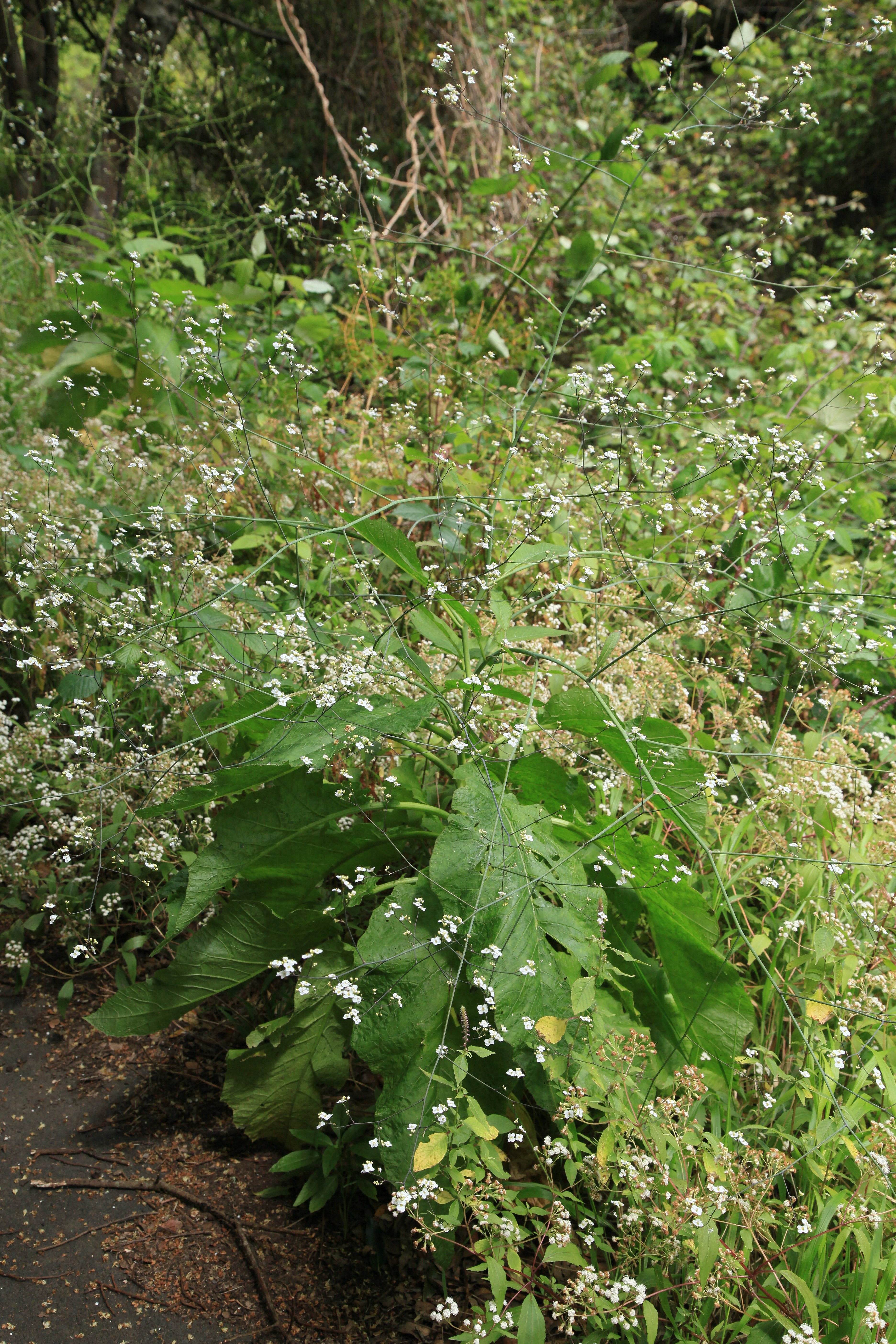 Crambe santosii growing at Cubo de La Galga (close to the LP-1) in Puntallana, La Palma, Canary Island, Spain.